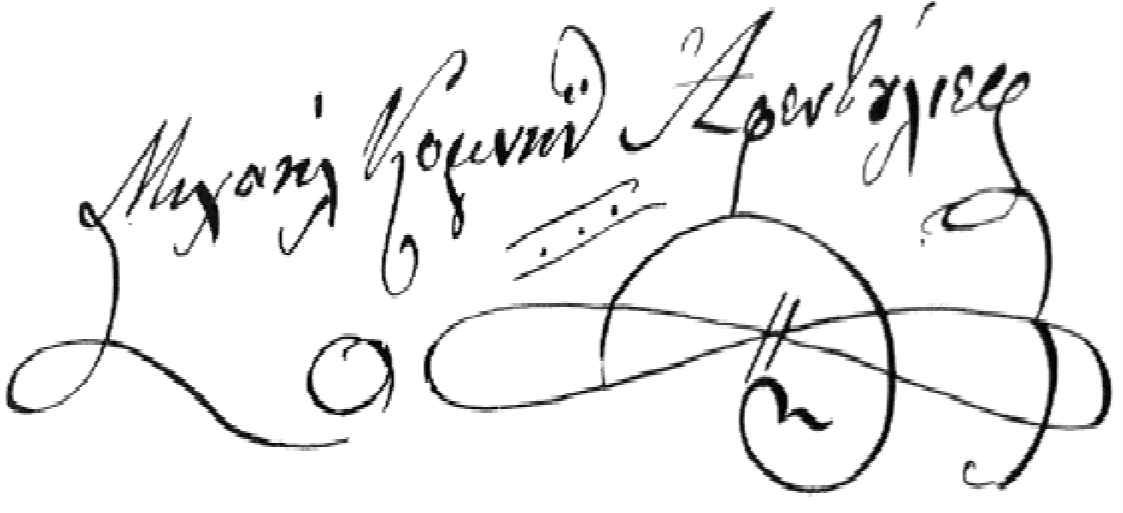 Signature of Michael Afendulief (1769-1855)- Appointed as leader of Greek Revolution of island on Creta 1822-1823